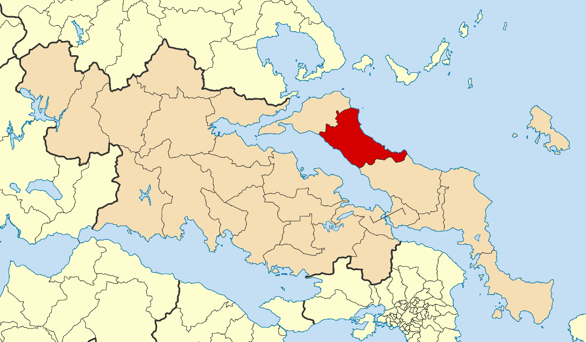 Locator map for Mandoudi-Limni municipality in Greek region Central Greece (2011)